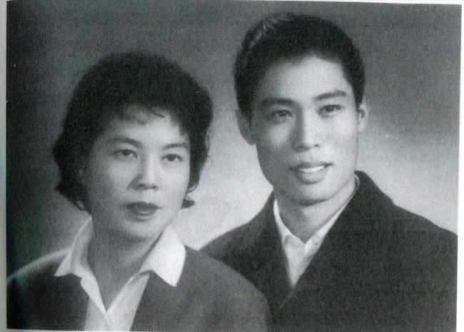 Chinese pulmonologist Zhong Nanshan and a top woman basketball player Li Shaofen, in 1963.